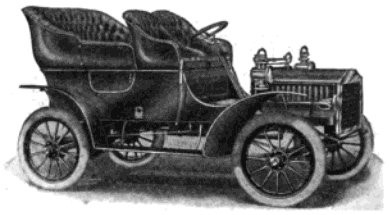 Image from a Michigan Automobile Company advertisement Title Motor age, Volume 7 Publisher Class Journal Co., 1905 Original from the New York Public Library Digitized Jun 24, 2006 Google Books